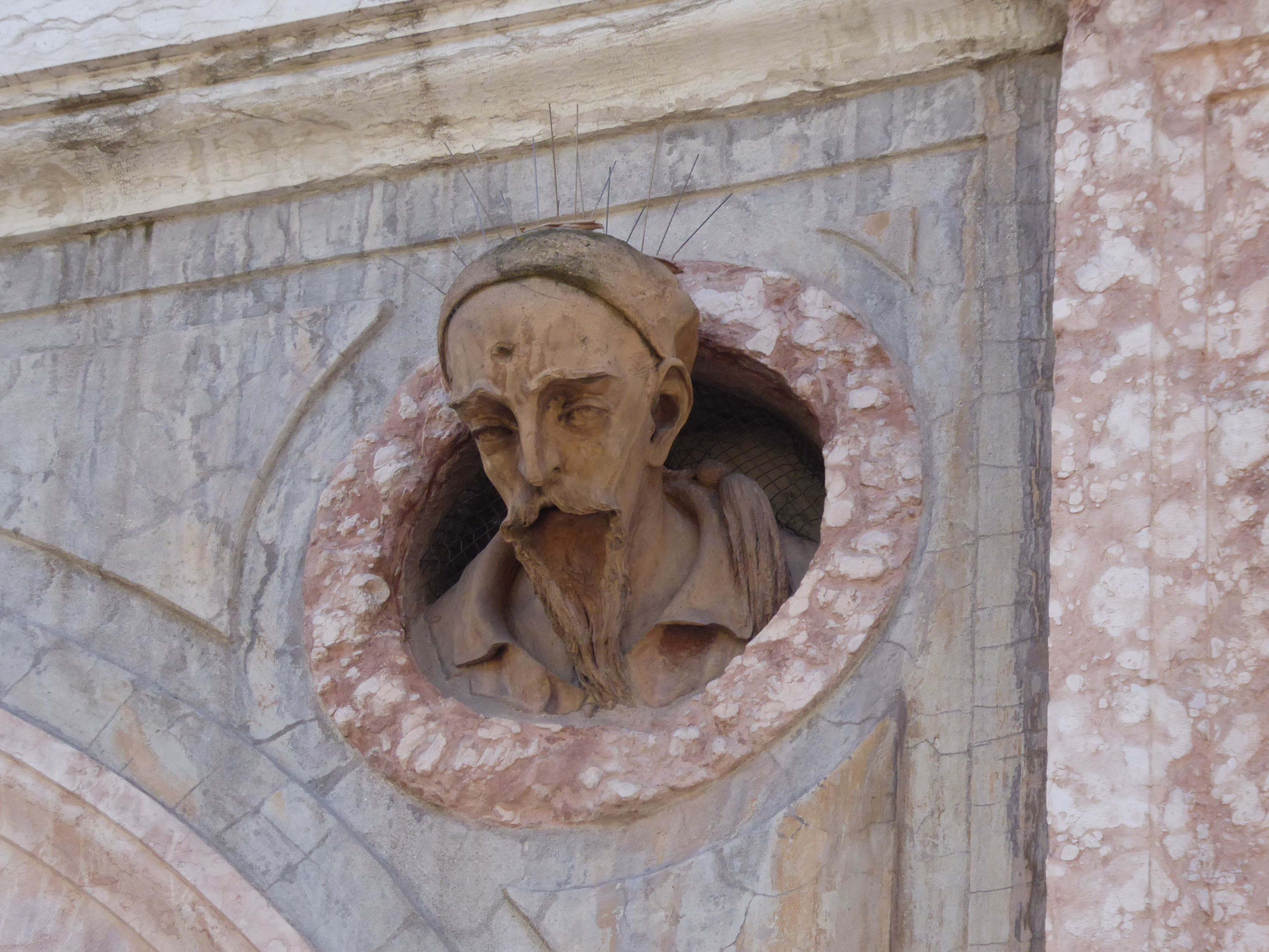 Bust of Andrea Rensi on the facade of Palazzo Ranzi, in Trento, by Andrea Malfatti